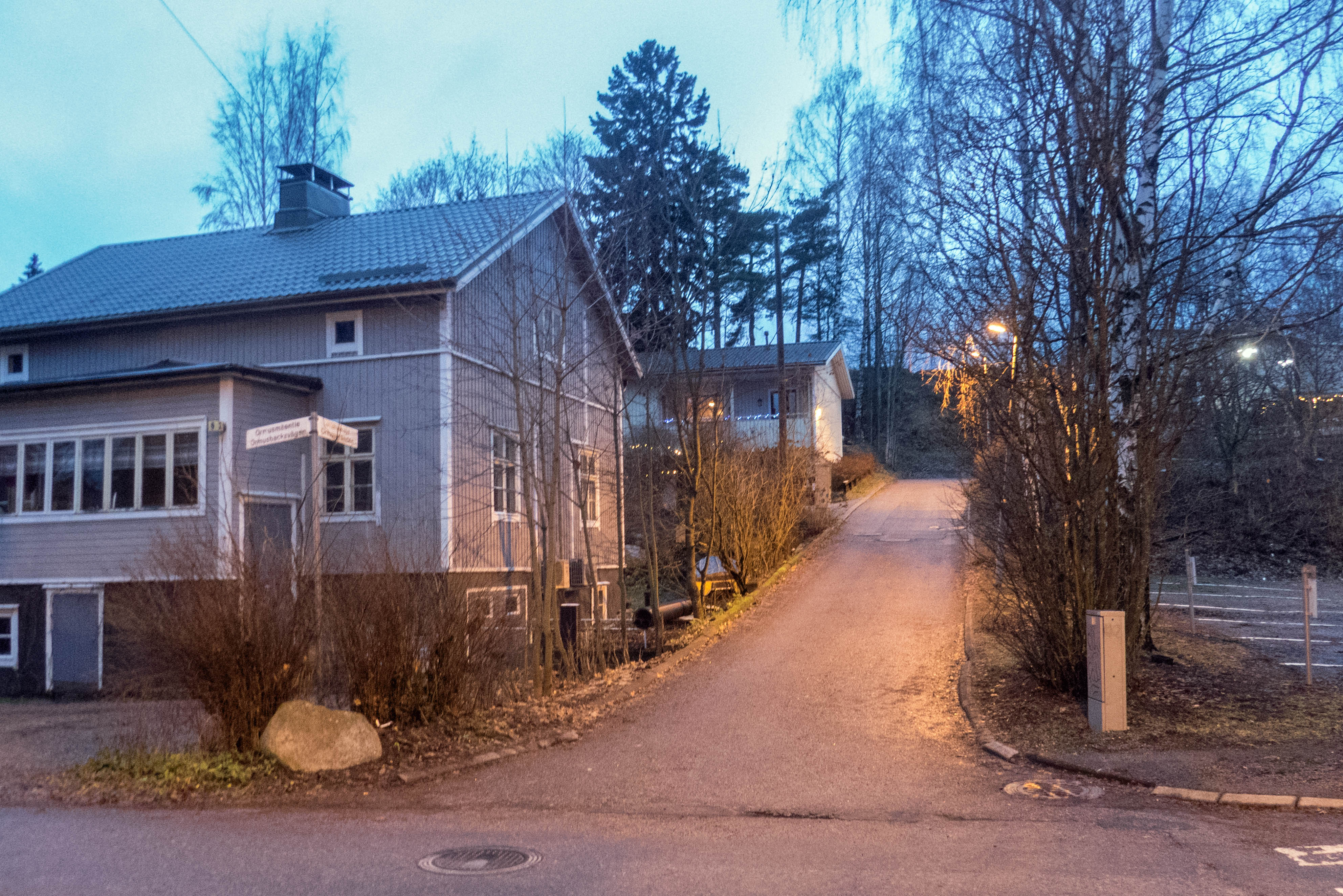 Ormusmäki